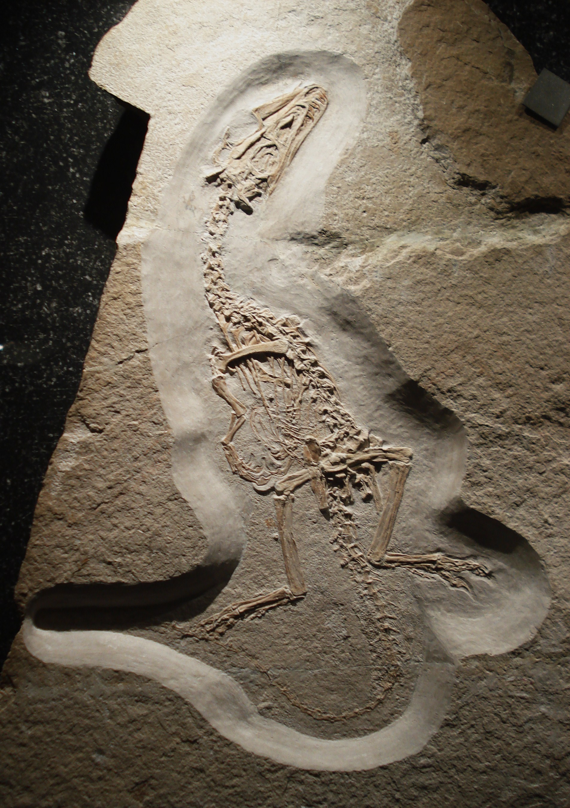 fossil of juravenator